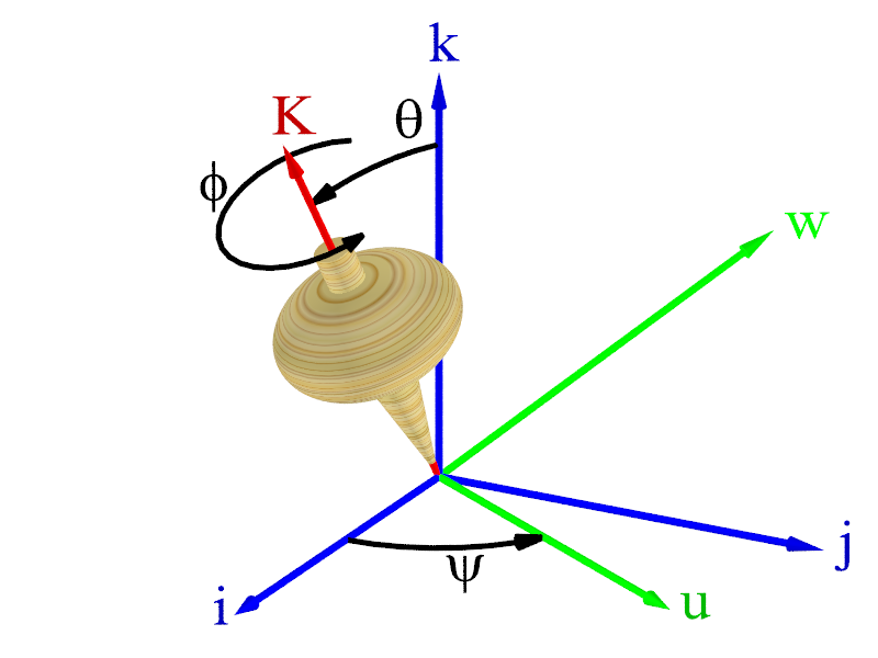 Motion of a top in the Euler angles, ψ {\displaystyle \psi } for precession, θ {\displaystyle \theta } for nutation, and ϕ {\displaystyle \phi } for intrinsic rotation.